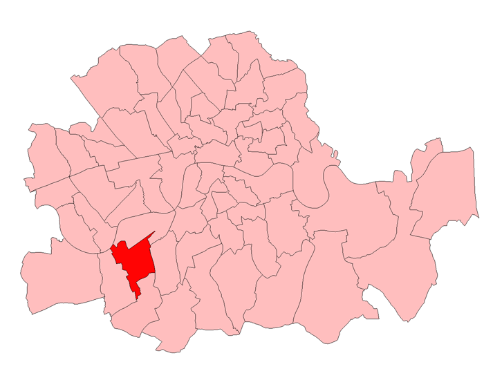 A map of Battersea South within the London County Council area, 1918-1949.